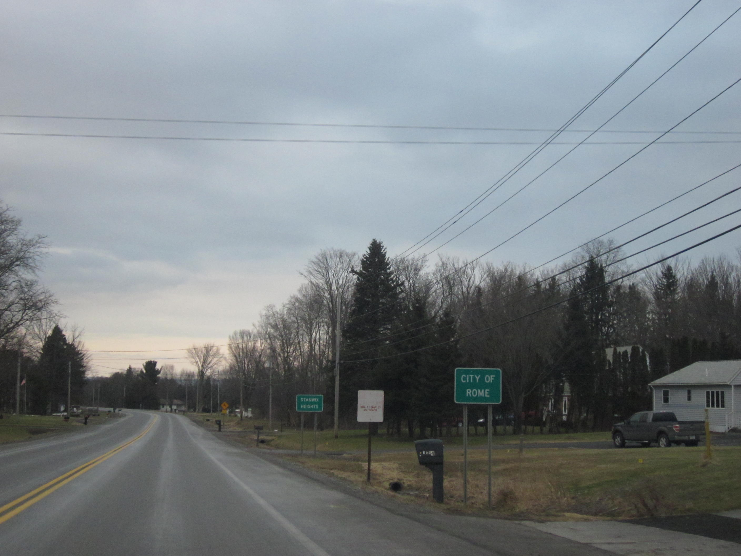 New York State Route 233 entering the Stanwix Heights section of Rome, New York.